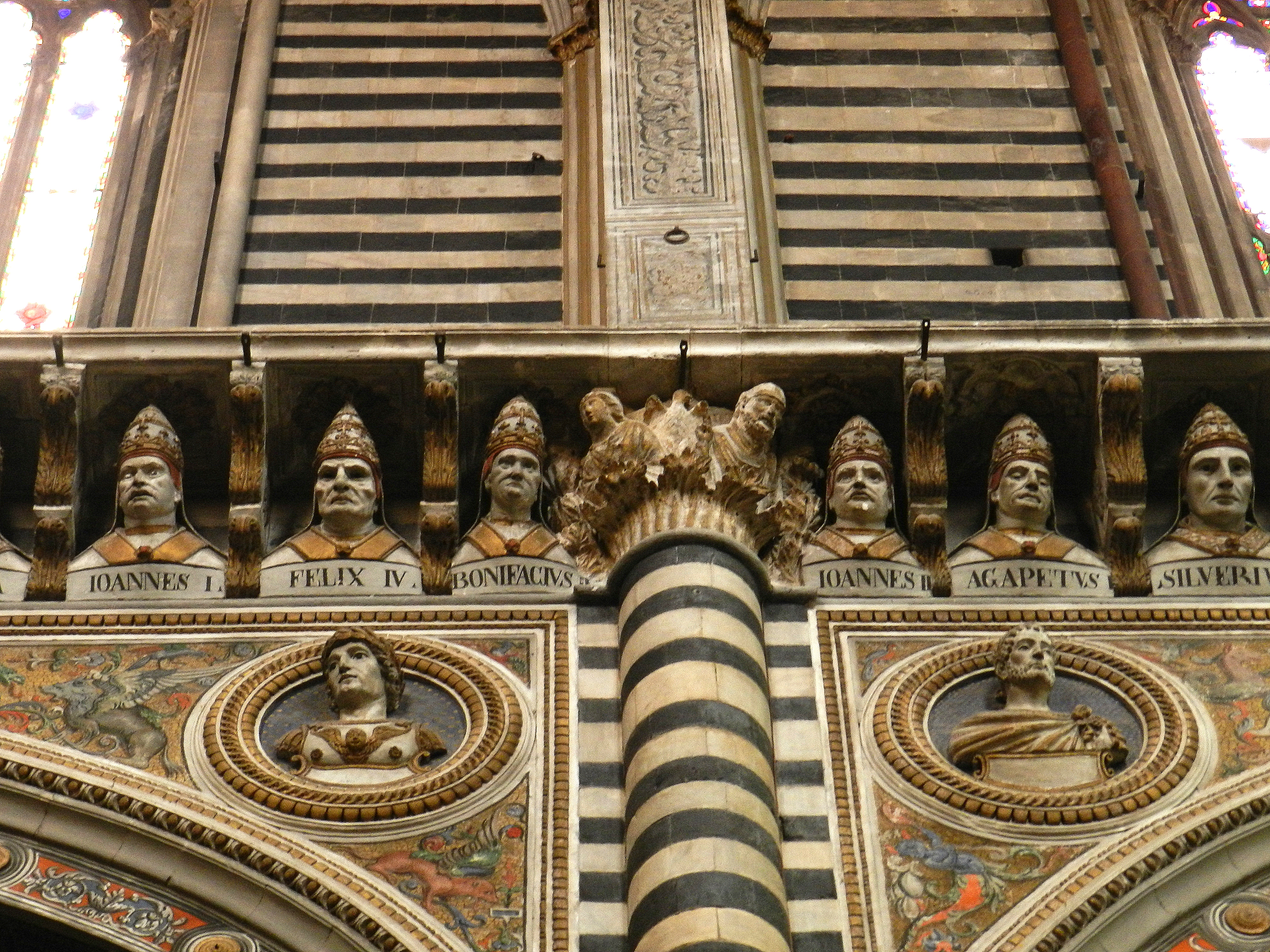 Neve Detail, Sienna Cathedral, Italy